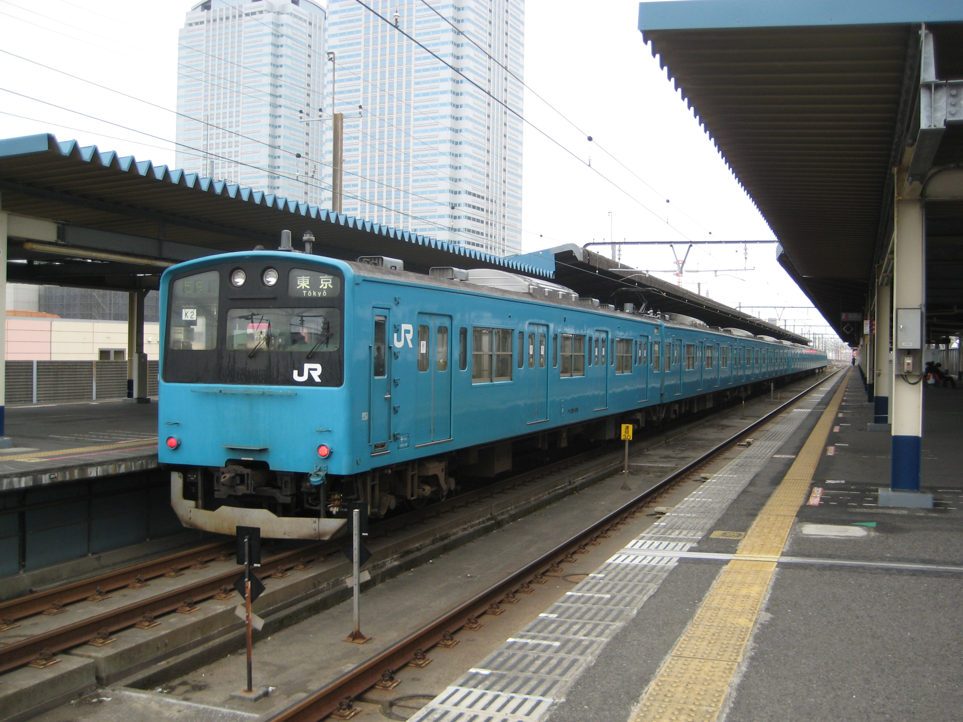 K2 formation and K52 formation of 201 series (JR East ownership car). It takes a picture at Keiyō Line Kaihin-Makuhari Station.